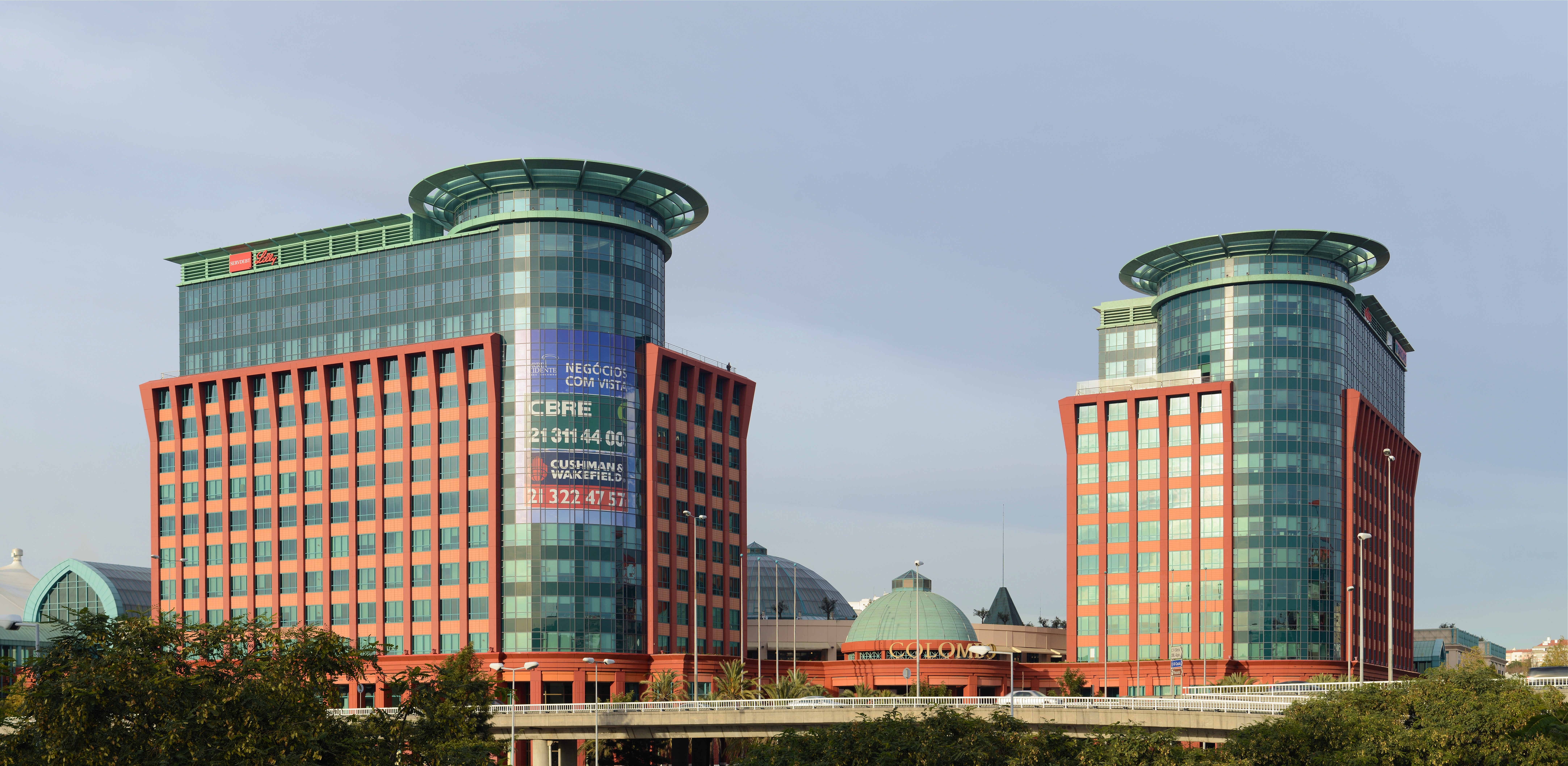 Colombo Comercial Mall, Lisbon, Portugal